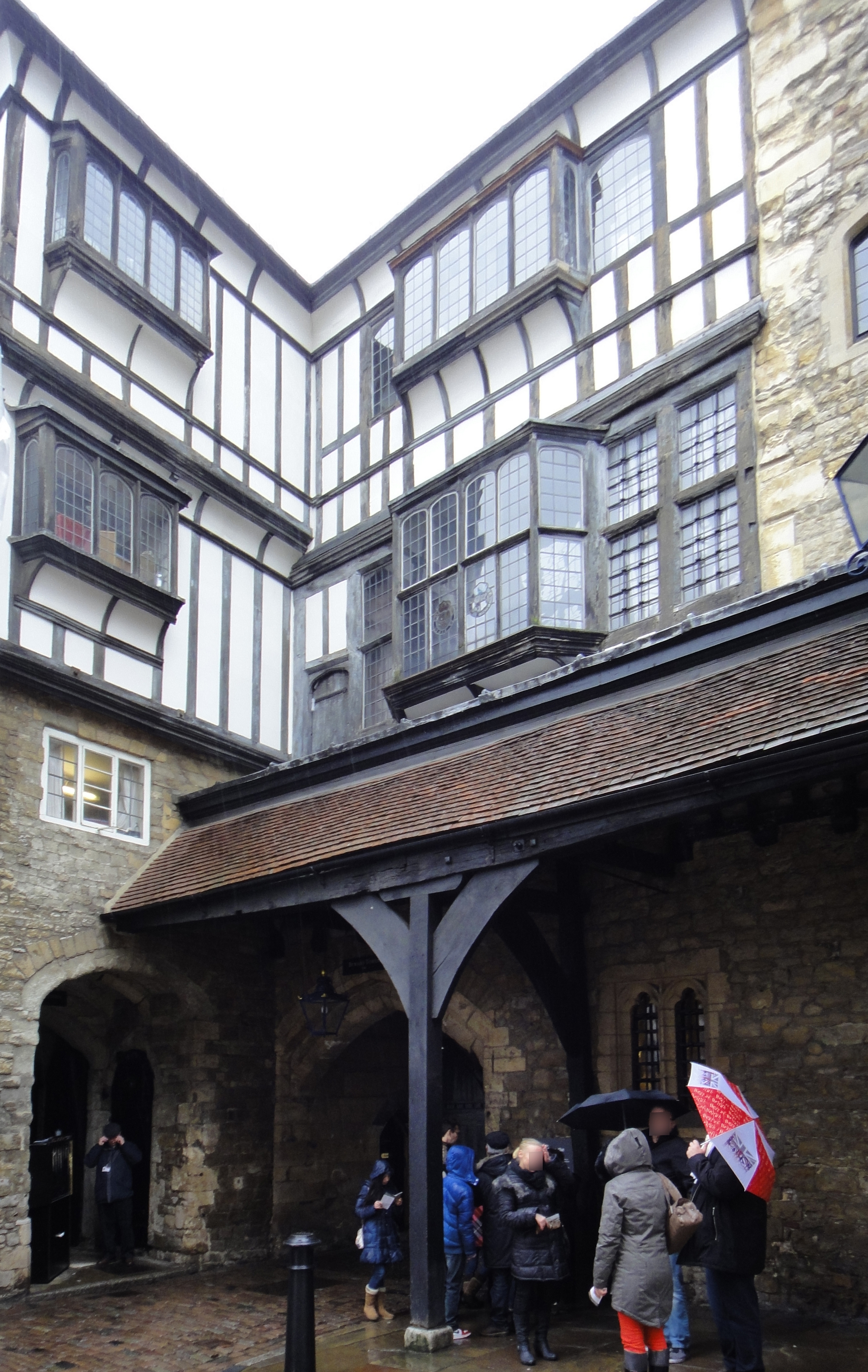 Byward Tower, Tower of London, seen from inside